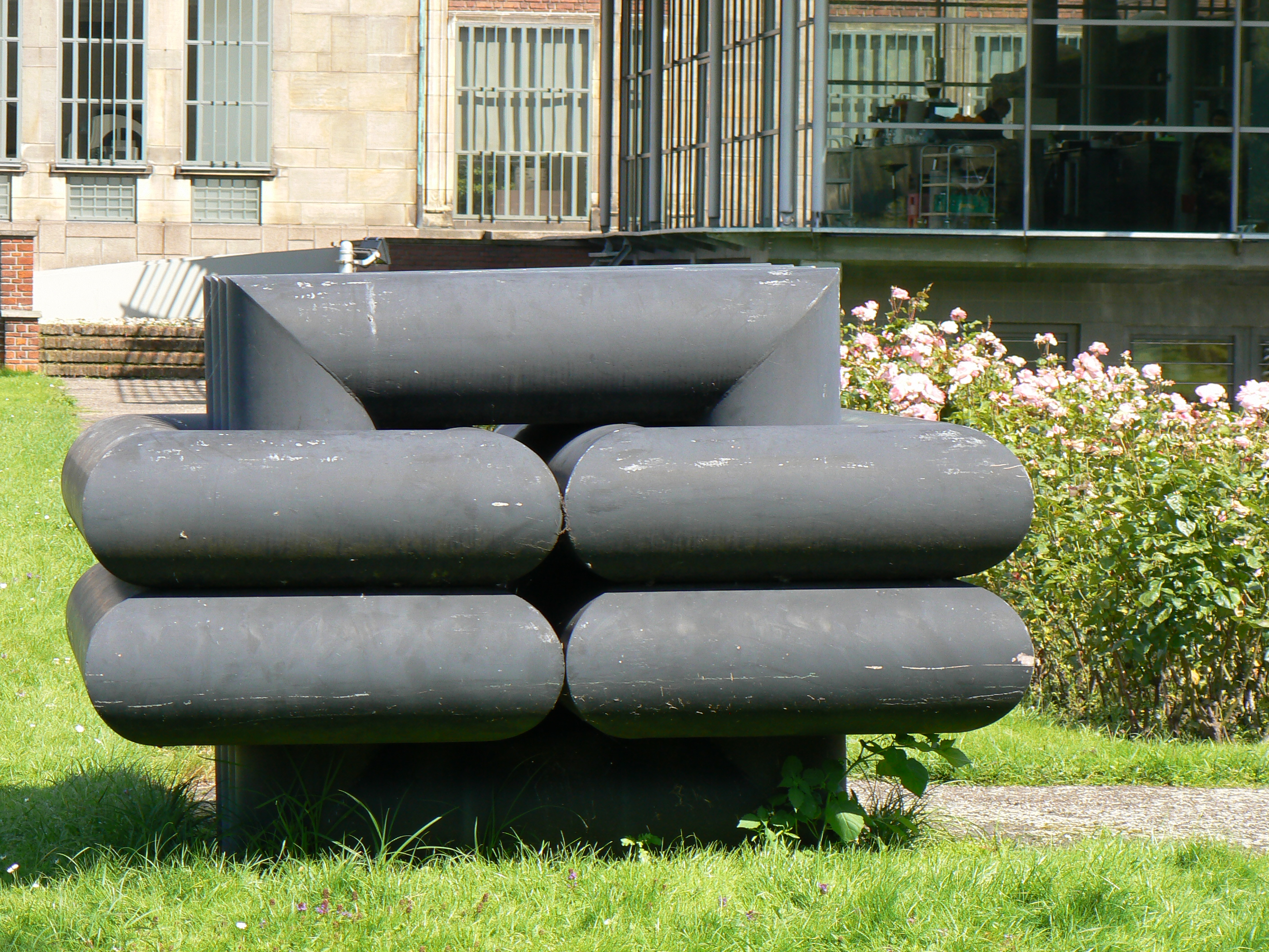 Museumpark Rotterdam/The Netherlands (FOP)